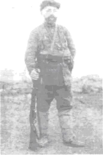 Nikola Gerasimov.